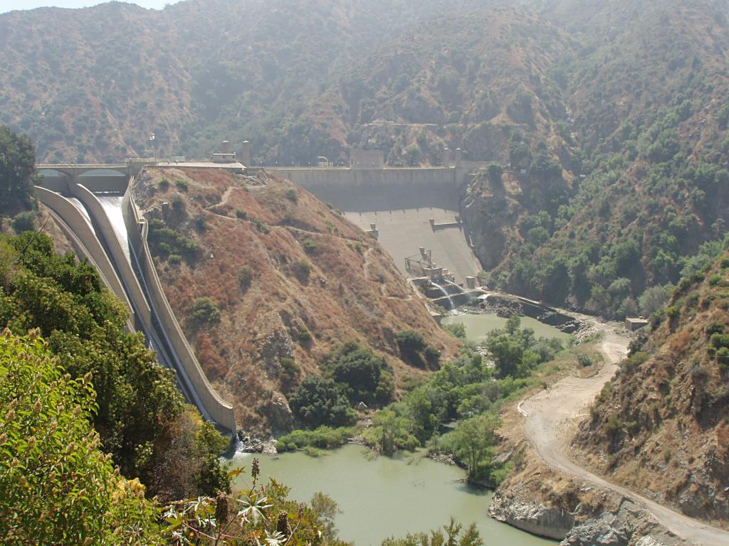 Morris Dam, San Gabriel River, Californa